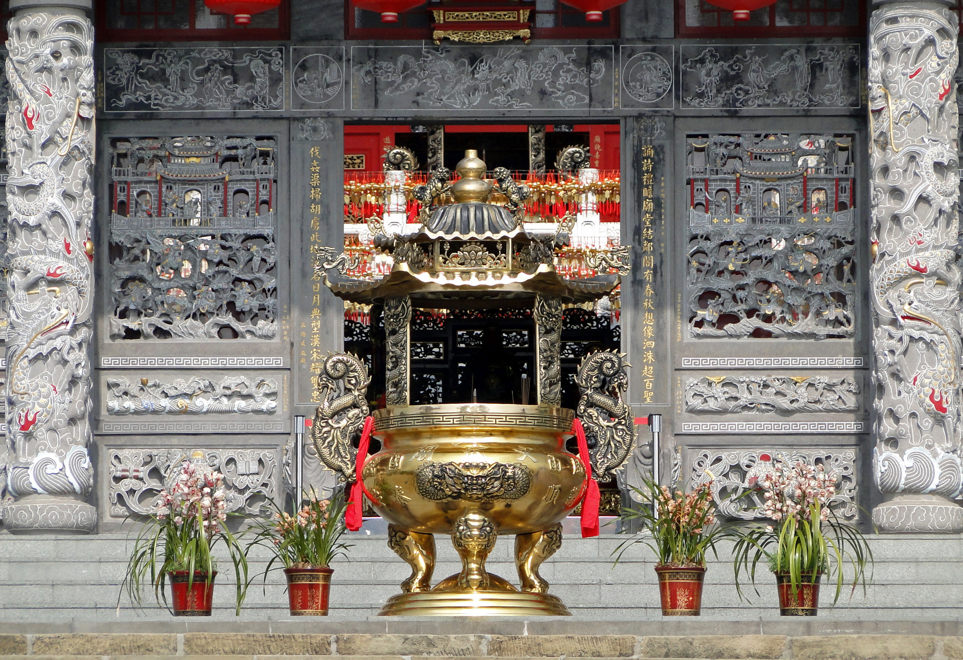 Censer in Wen Wu Temple at Sun Moon Lake, Nantou county, Taiwan